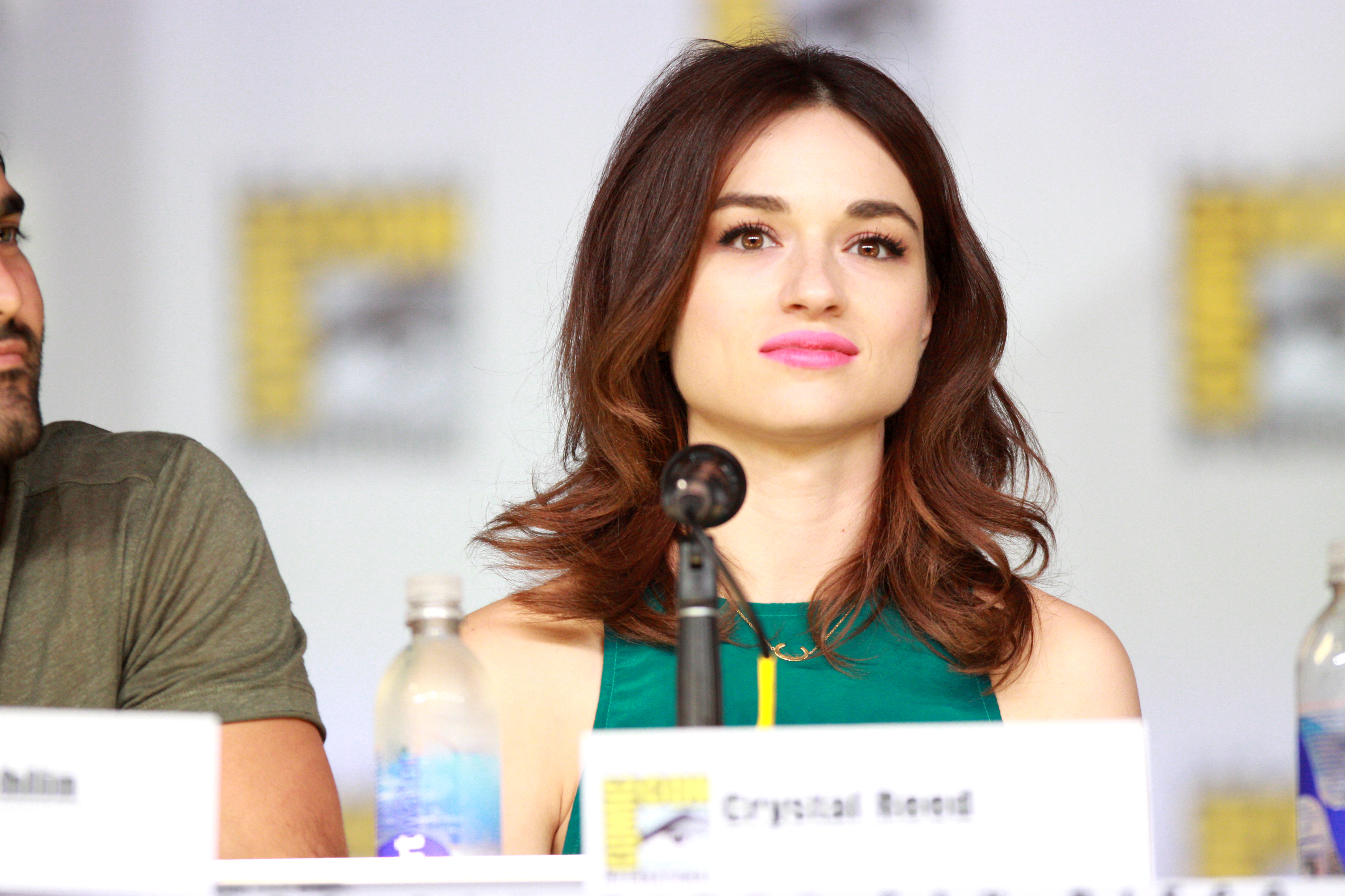 Crystal Reed speaking at the 2013 San Diego Comic Con International, for "Teen Wolf", at the San Diego Convention Center in San Diego, California.